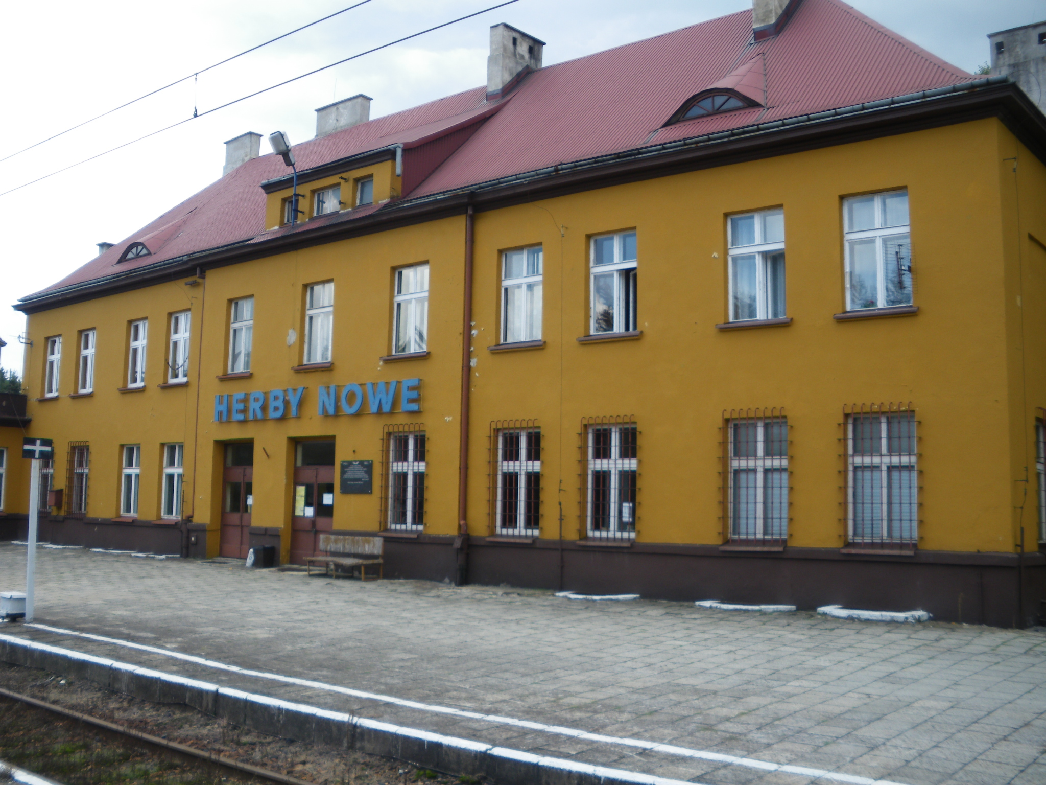 Railway station Herby Nowe.